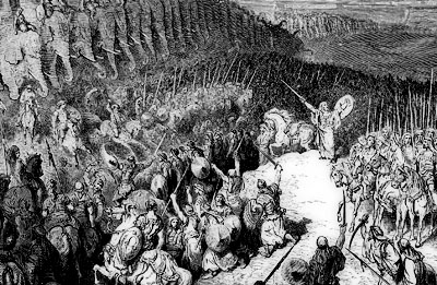 Judas Maccabeus before the Army of Nicanor (1 Macc. 7:26-32)